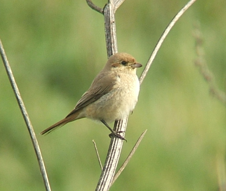 Lanius isabellinus juvenile, Cresswell Pond, Northumberland, UK